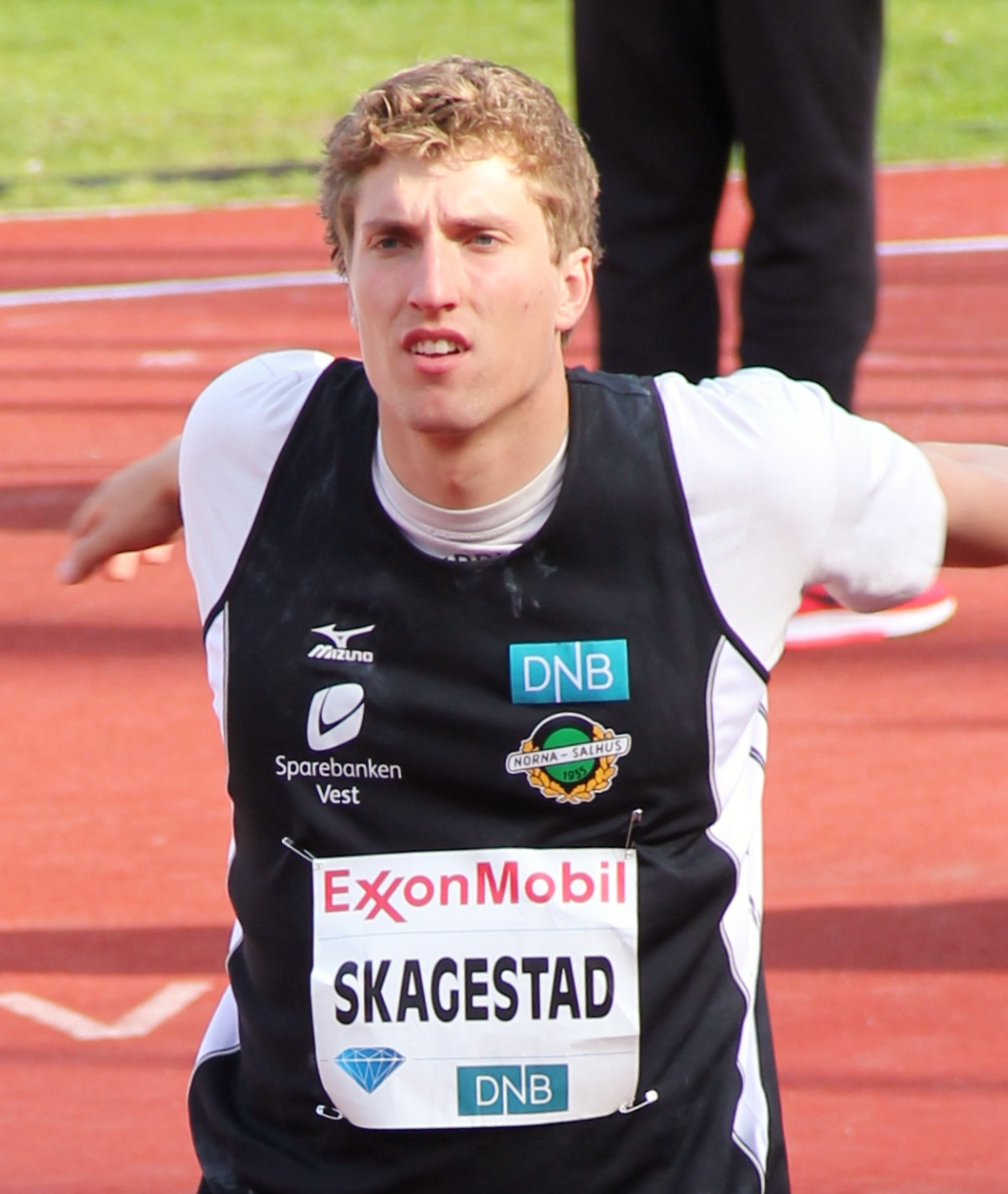 Sven Martin Skagestad at the 2015 Bislett Games